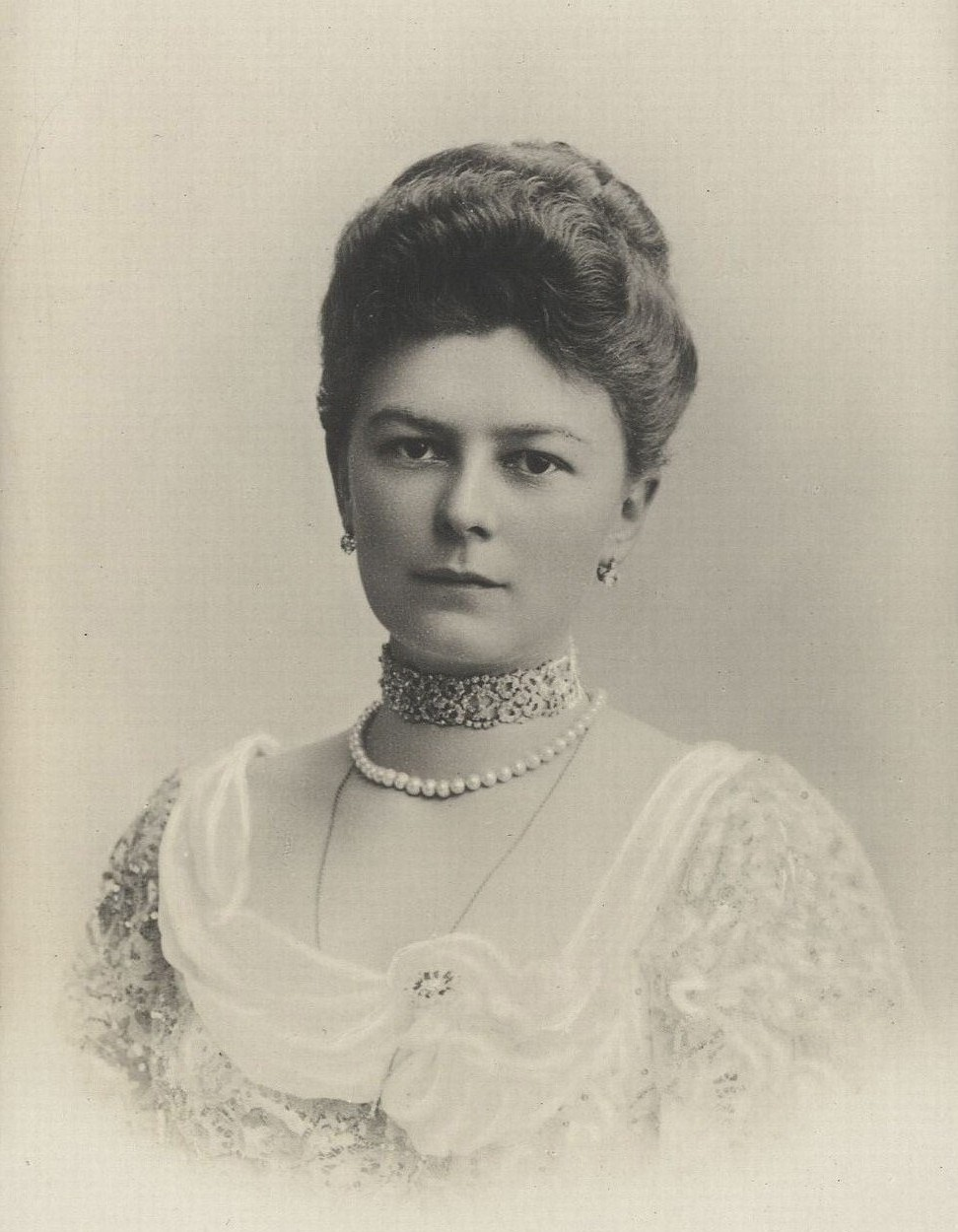 Sophie, the Duchess of Hohenberg